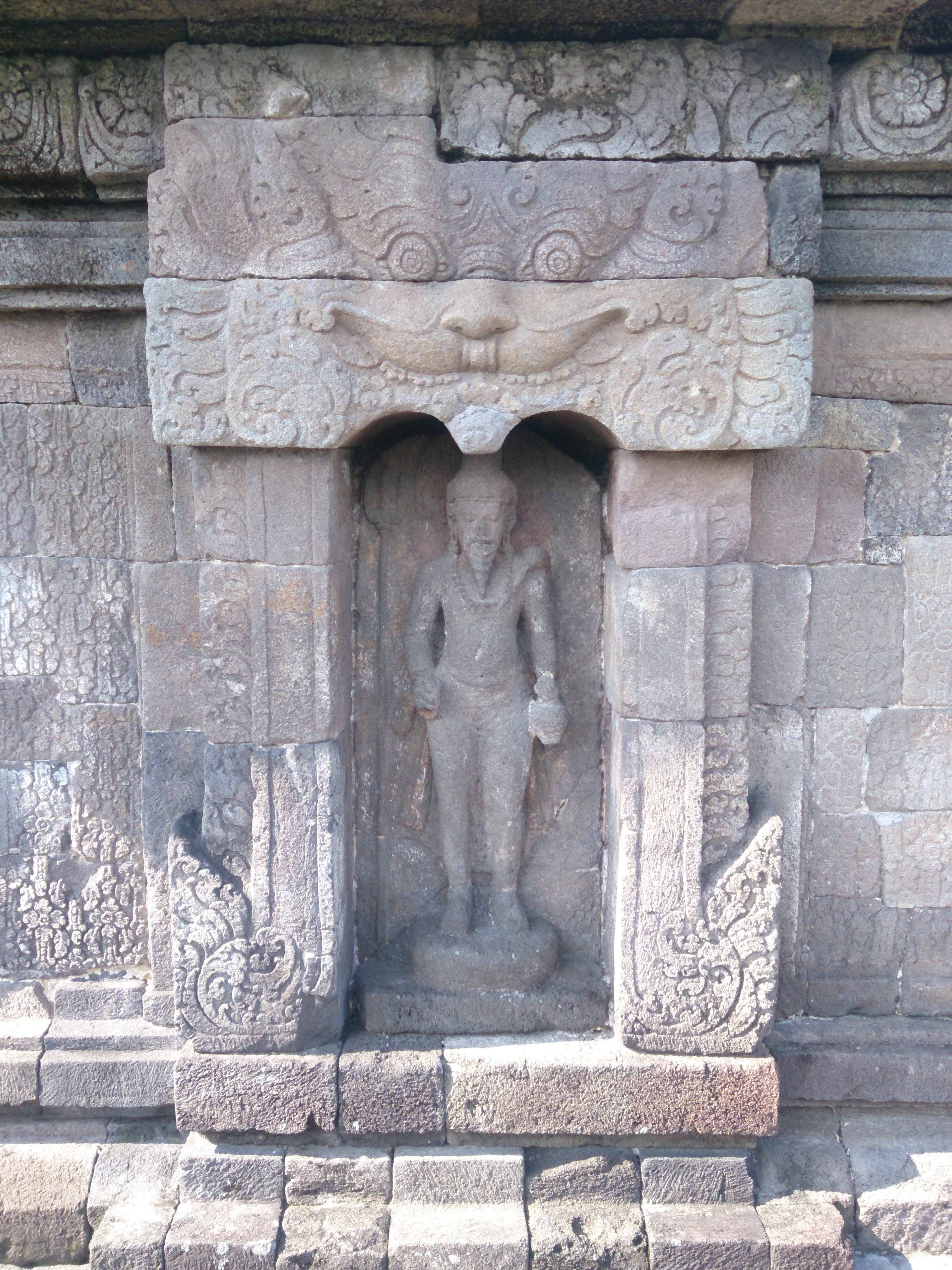 Agastya statue on 9th-century Hindu temple Sambisari